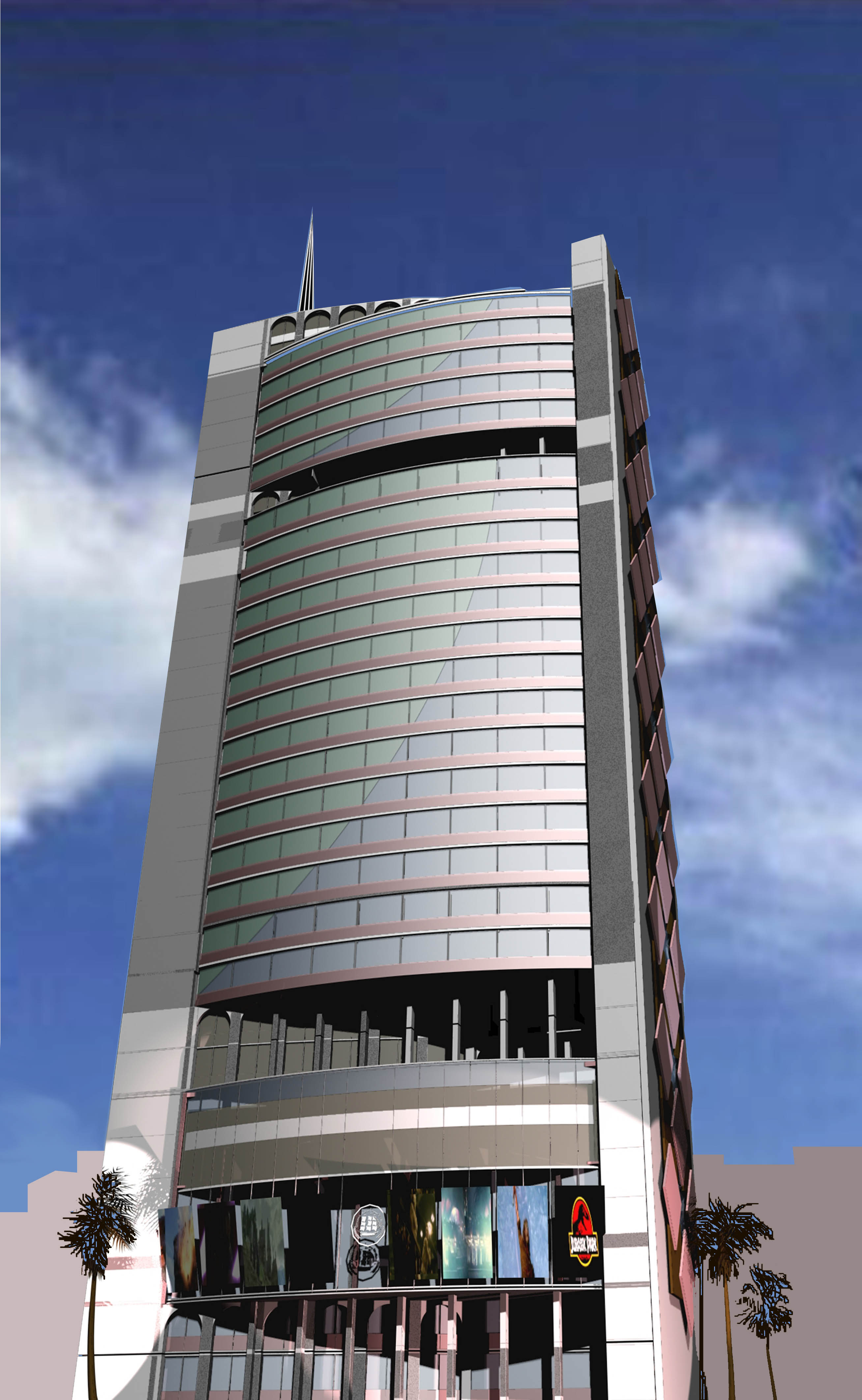 Architect Hisham N. Ashkouri's rendering of The Sindbad Hotel Complex and Conference Center. This was a private investment development project for downtown Baghdad, Iraq, designed in 2004 by Ashkouri as a kind of personal contribution towards the reconstruction of Iraq.